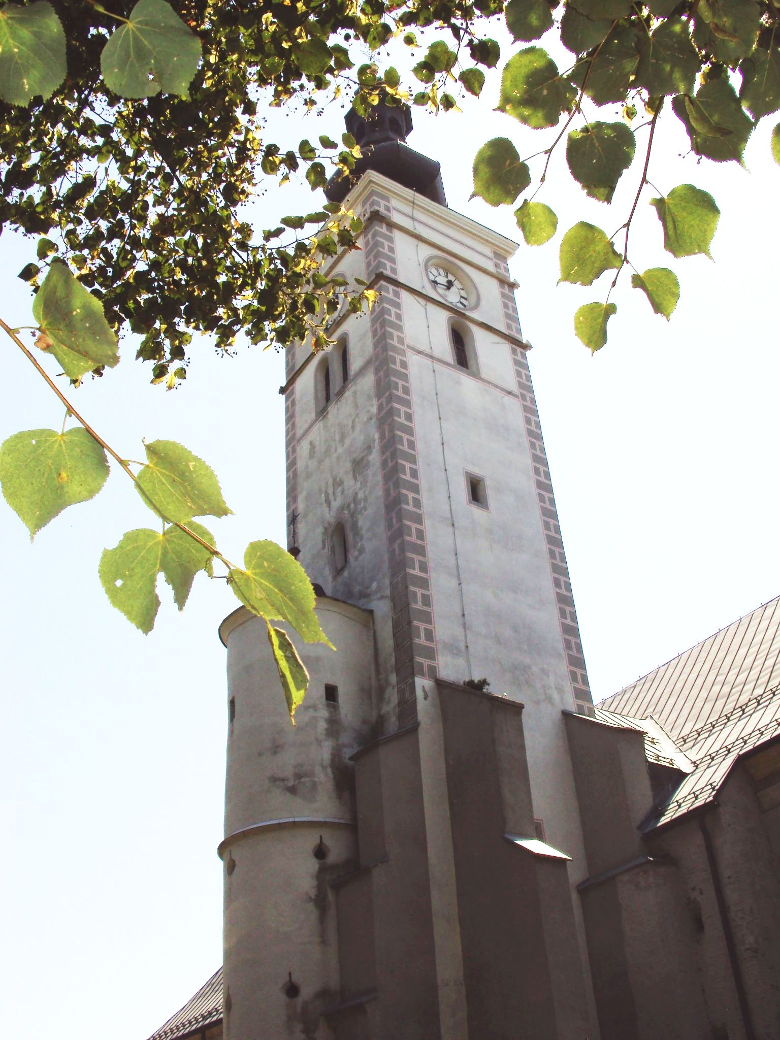 Church of the Assumption of Mary in Nova Raca, Croatia